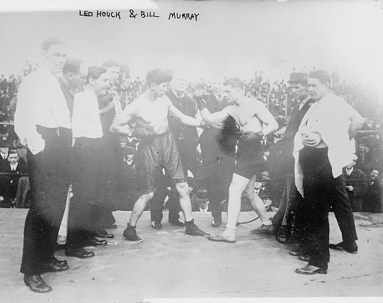 Leo Houck and Bill Murray posing before their bout